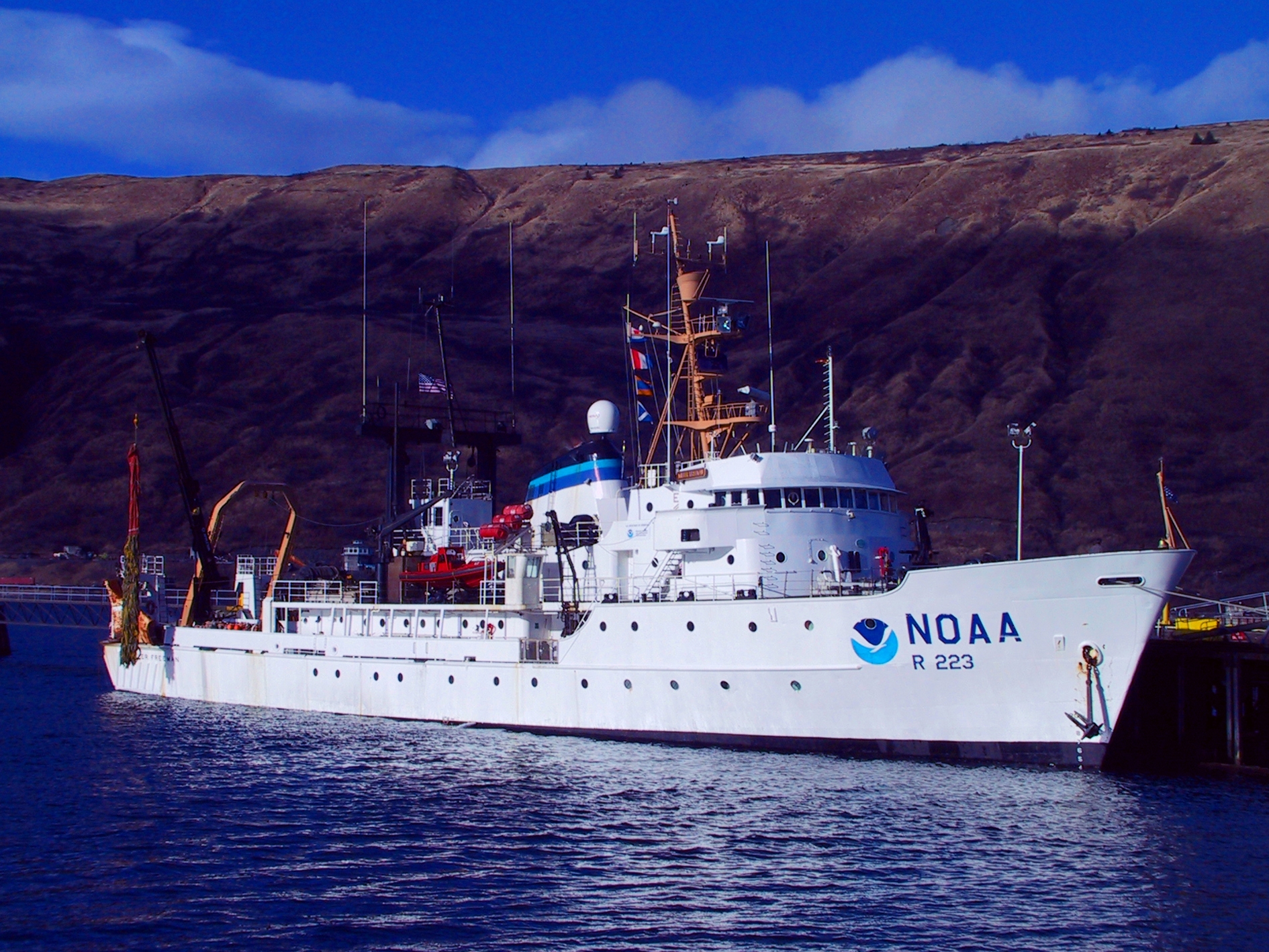 The National Oceanic and Atmospheric Administration fisheries and oceanographic research ship NOAAS Miller Freeman (R 223) preparing to conduct an acoustic trawl at Kodiak